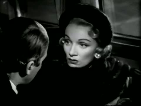 Cropped screenshot of Marlene Dietrich and James Stewart from the trailer for the film No Highway in the Sky.